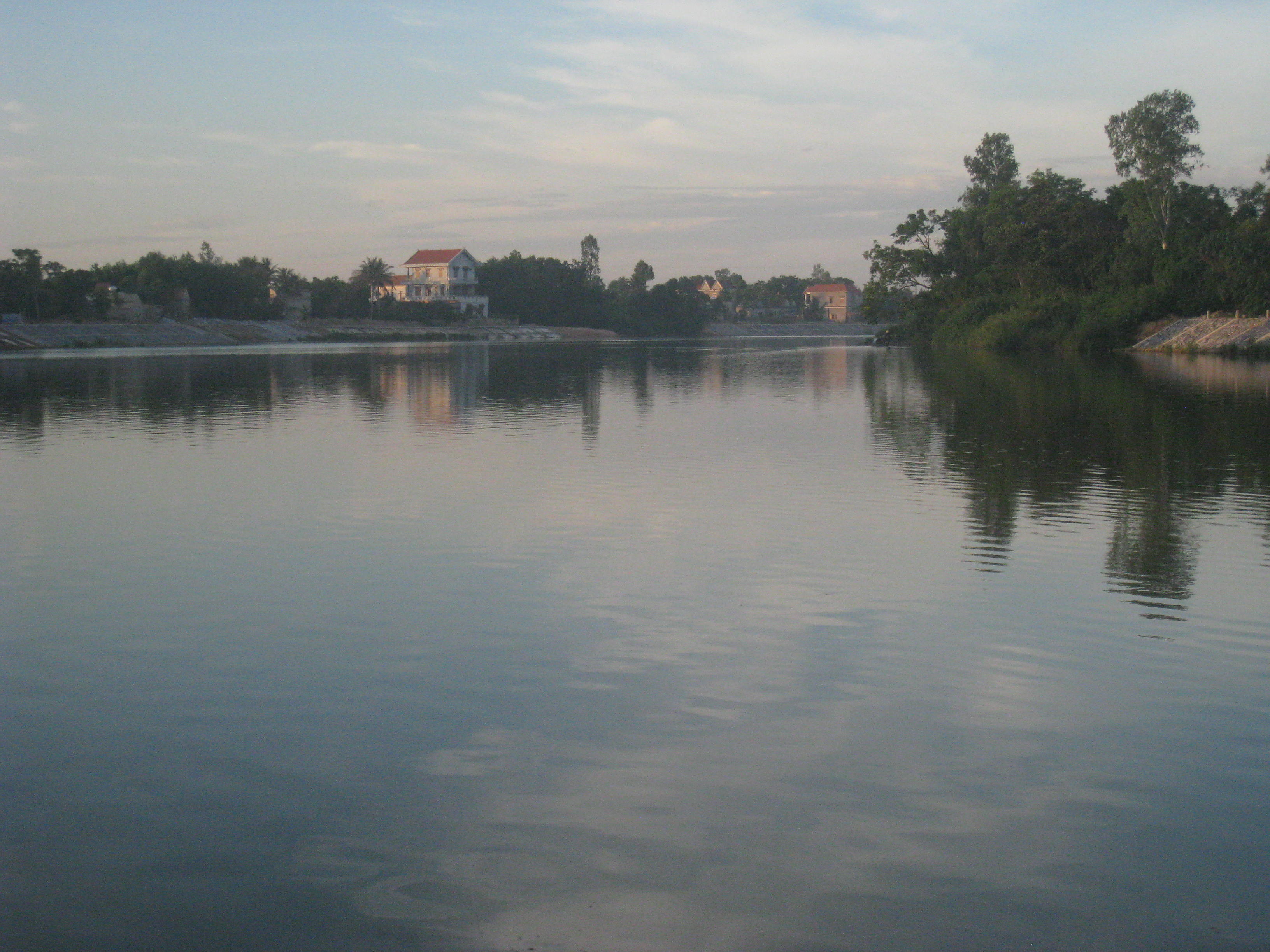 Kien Giang River, Le Thuy District, Quang Binh Province, Vietnam